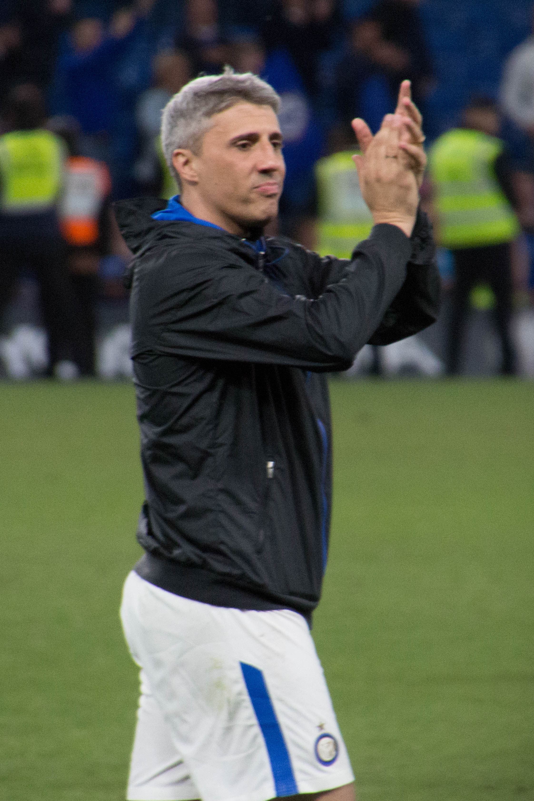 Hernán Crespo with Inter Legends team called Inter Forever after a friendly match against Chelsea Legends at Stamford Bridge.